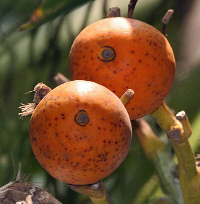 Supari Palm or Betelnut Areca catechu. Kolkata, West Bengal, India